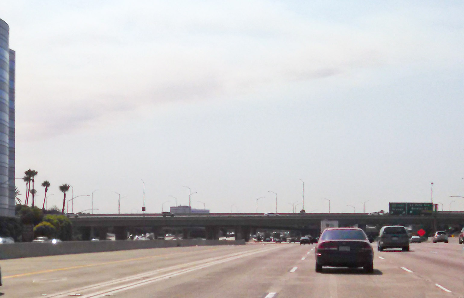 Another view of the notorious Orange Crush interchange on the I-5 Southbound.